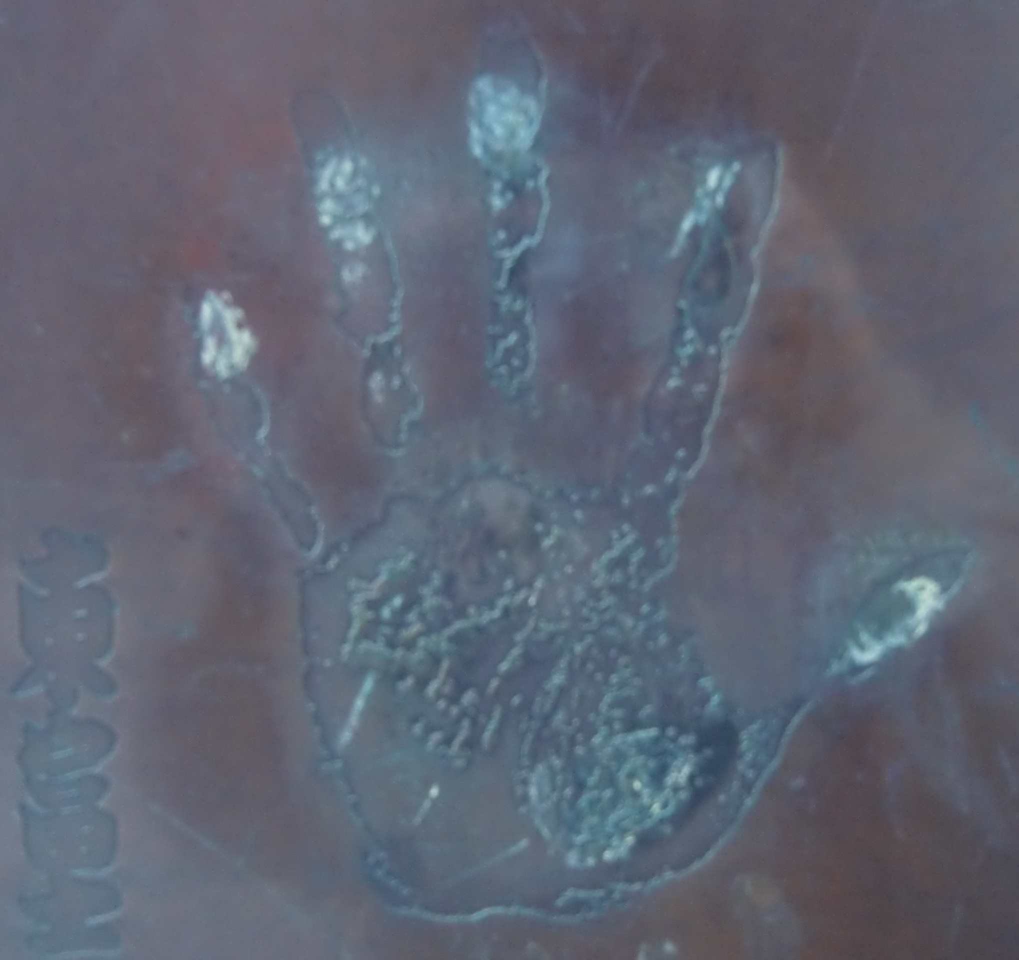 photo from public monument in Ryogoku area